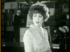 Claire Windsor from the film The Blot